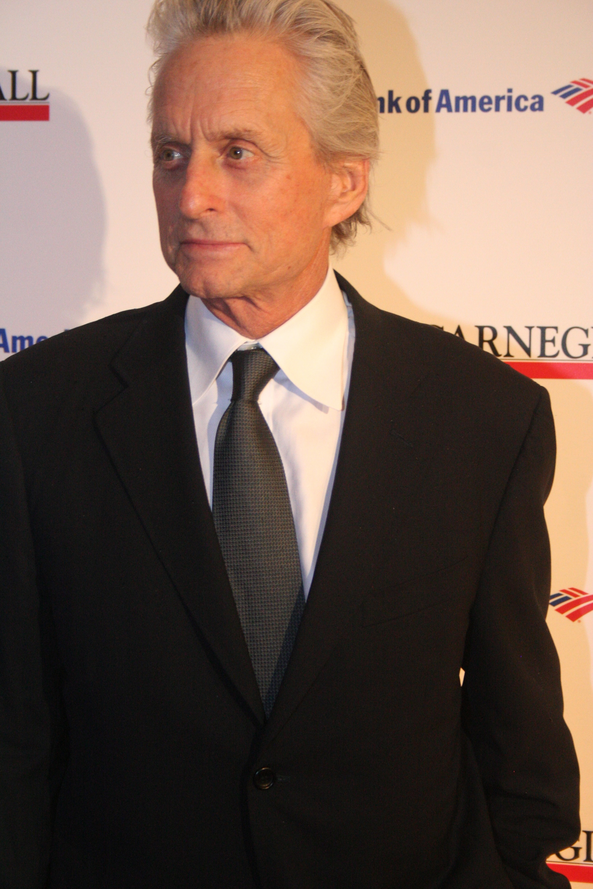 120th Anniversary Of Carnegie Hall MOMA, New York City April 12th 2011